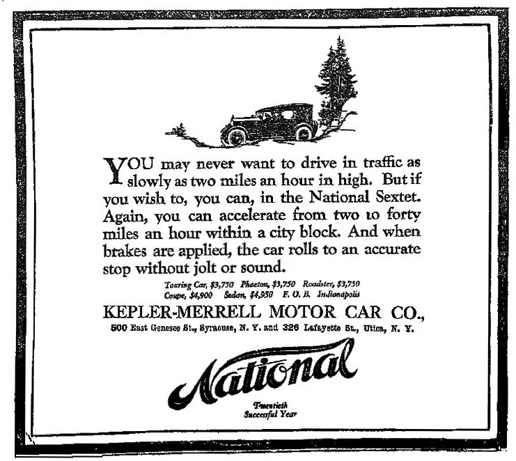 A 1921 National Automobile Advertisement